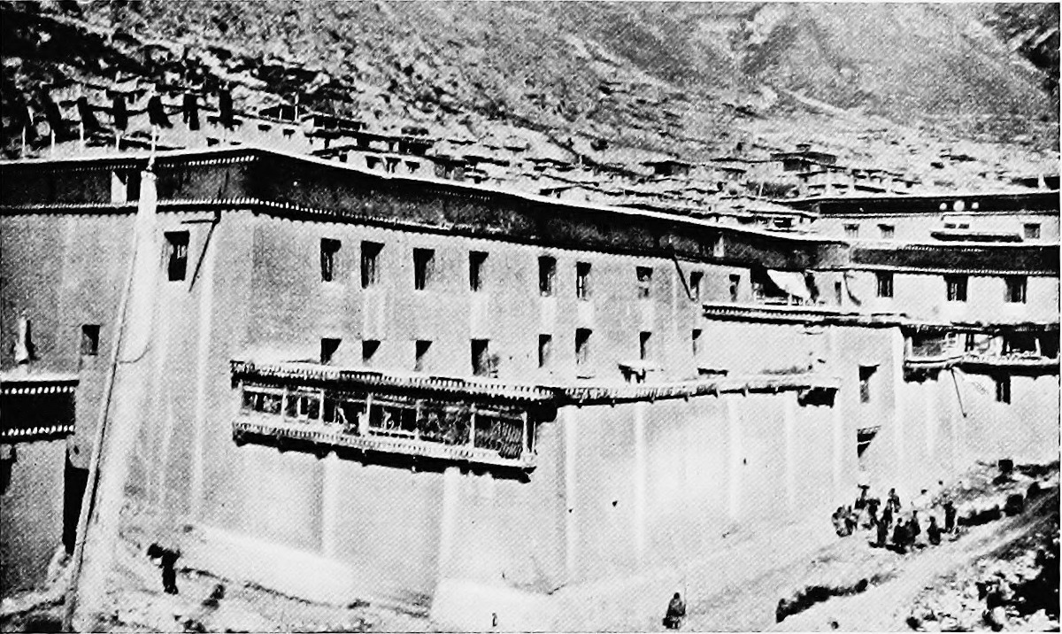 Identifier: cu31924089999209 Title: Travels of a consular officer in eastern Tibet : together with a history of the relations between China, Tibet and India Year: 1922 (1920s) Authors: Teichman, Eric, Sir, 1884-1944 Subjects: Publisher: Cambridge, England : University Press Text Appearing Before Image: n (meaning literally The Big Monasteryof De-ge) is the capital of the old Kingdom of De-ge^, thelargest and most important of the former independent Statesof Kam, and consists of a large Sajya monastery and twoTibetan castles, residences of the King, packed together inthe mouth of a narrow ravine. The Chinese, who occupiedDe-ge in 1909 and were driven out this spring, made itthe centre of a district which they called at various timesTeko, Tehua and Kengching. The principal building in themonastery is the printing establishment, where an edition ofthe lamaist scriptures, well known throughout Tibet, andother religious and historical works are published^. ^ De-ge is the correct spelling: it often appears as Derge or Darge onforeign maps; the e is pronounced short and the g hard. The meaning of theTibetan words seems to be Happy Land. The lamaist scriptures are, it appears, only printed at De-ge Gonchenin Kam and at Trashllumpo in Central Tibet. There used also to be a Peking PLATE XXXIX Text Appearing After Image: CASTLE OF THE RAJAH OF DE-GE AT DE-GE GONCHEN